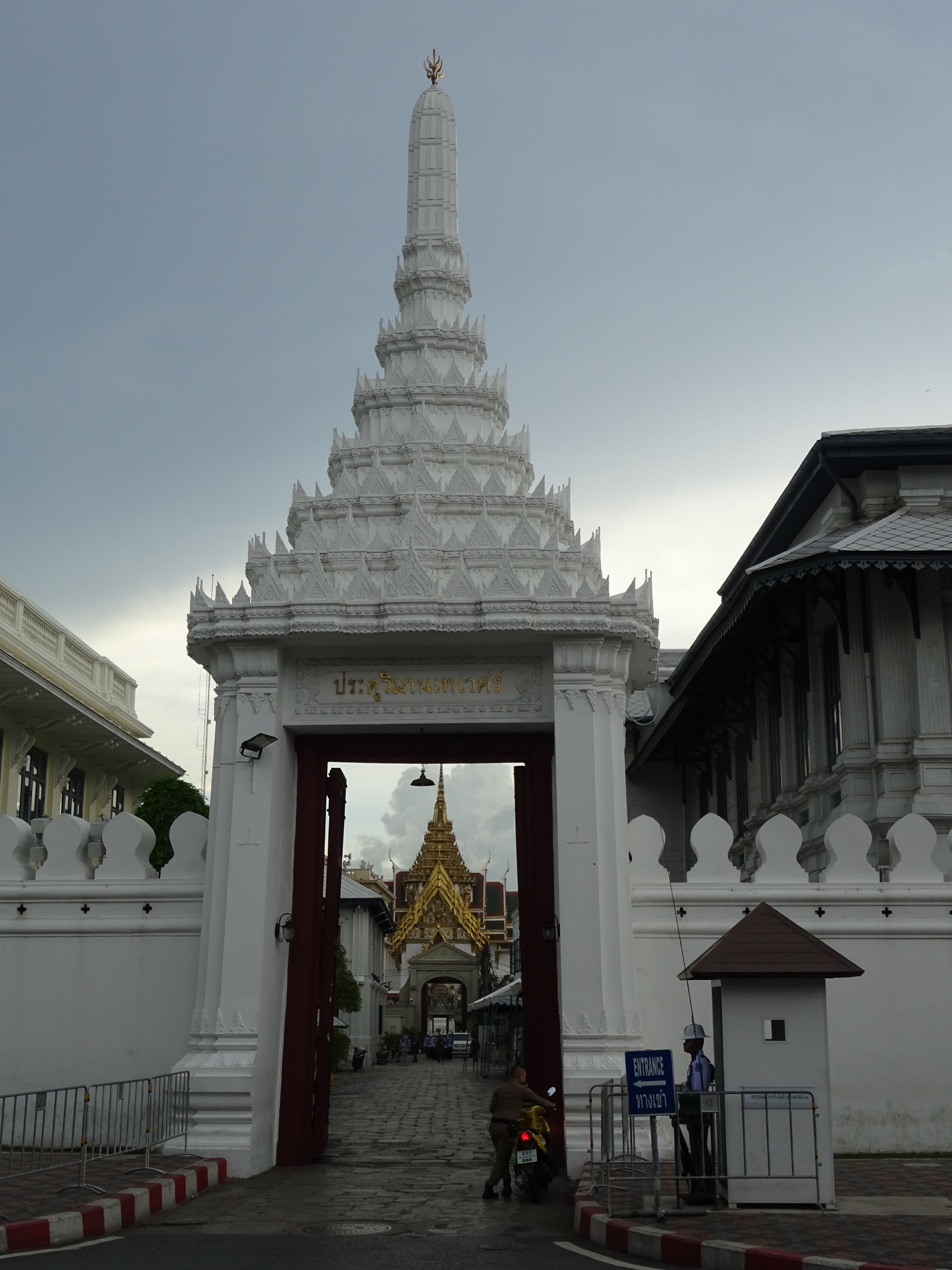 A gate in the northwest of the Grand Palace in Bangkok.